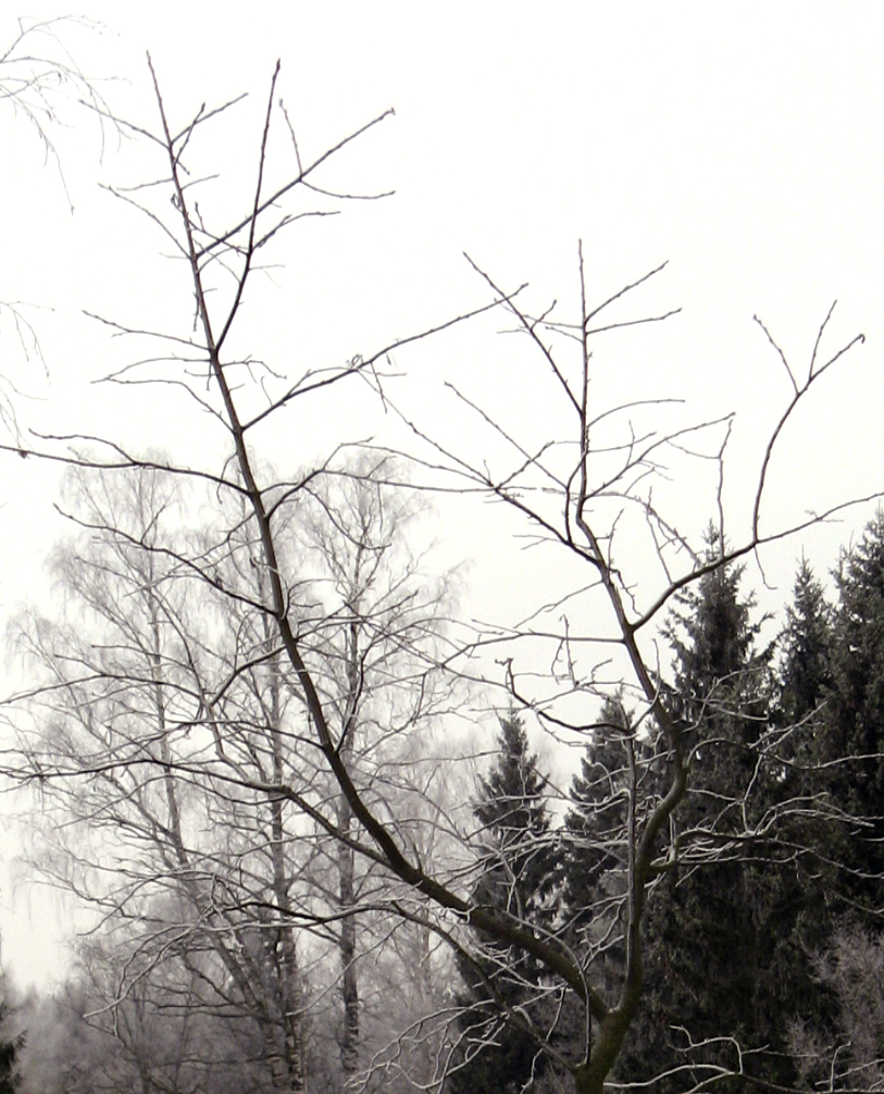 Lace of tree braches, Pavlovsk park.